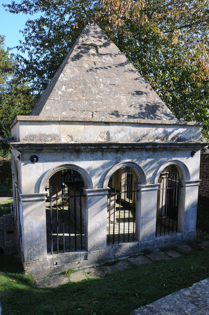 Although called "Memorial to Ralph Allen, Claverton churchyard", this photograph is of the mausoleum in the Claverton churchyard which contains Ralph Allen's tomb.